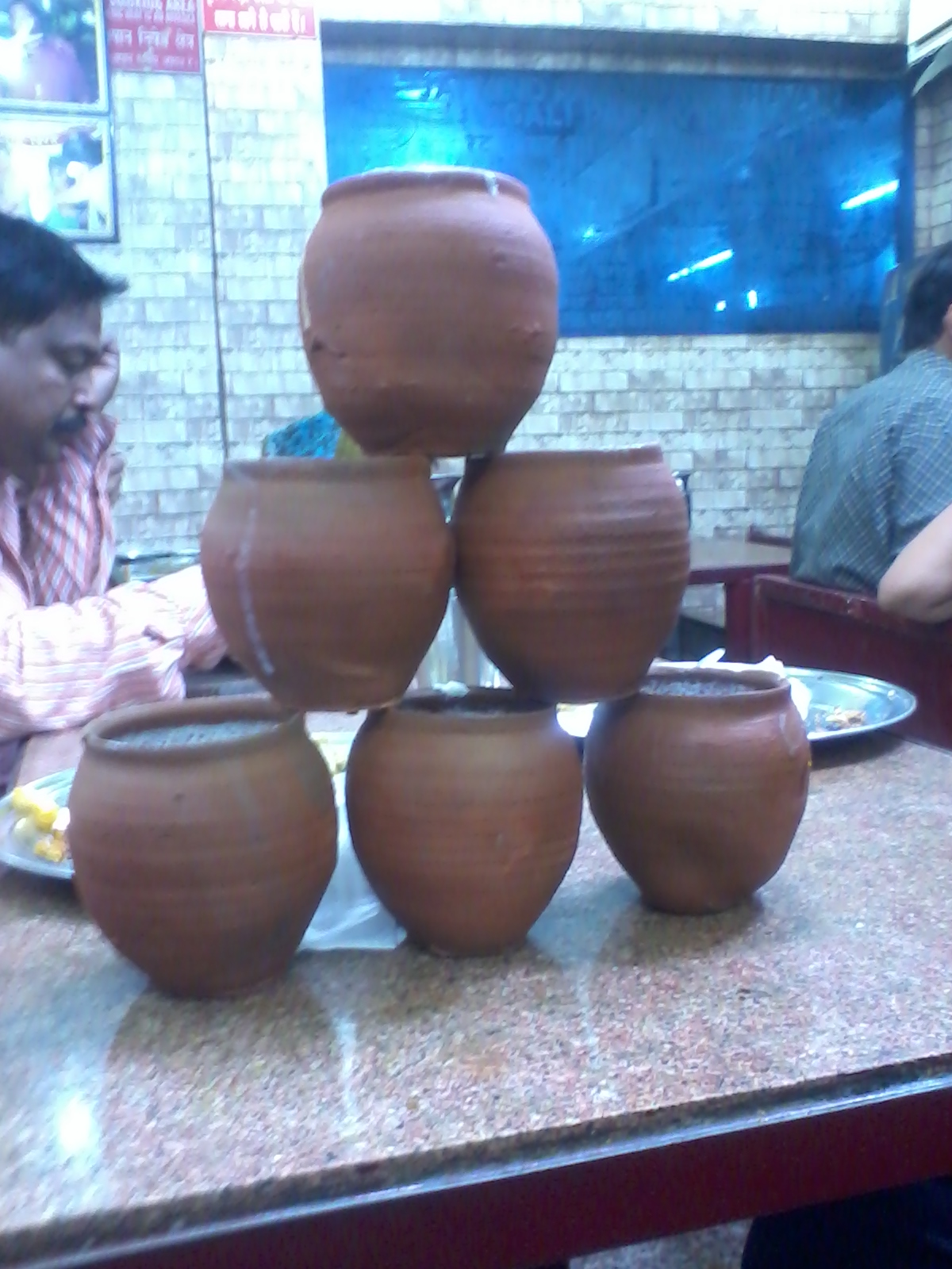 Lassi at paranthe wali gali usually served in Kulhad which is a utensil made up of clay.